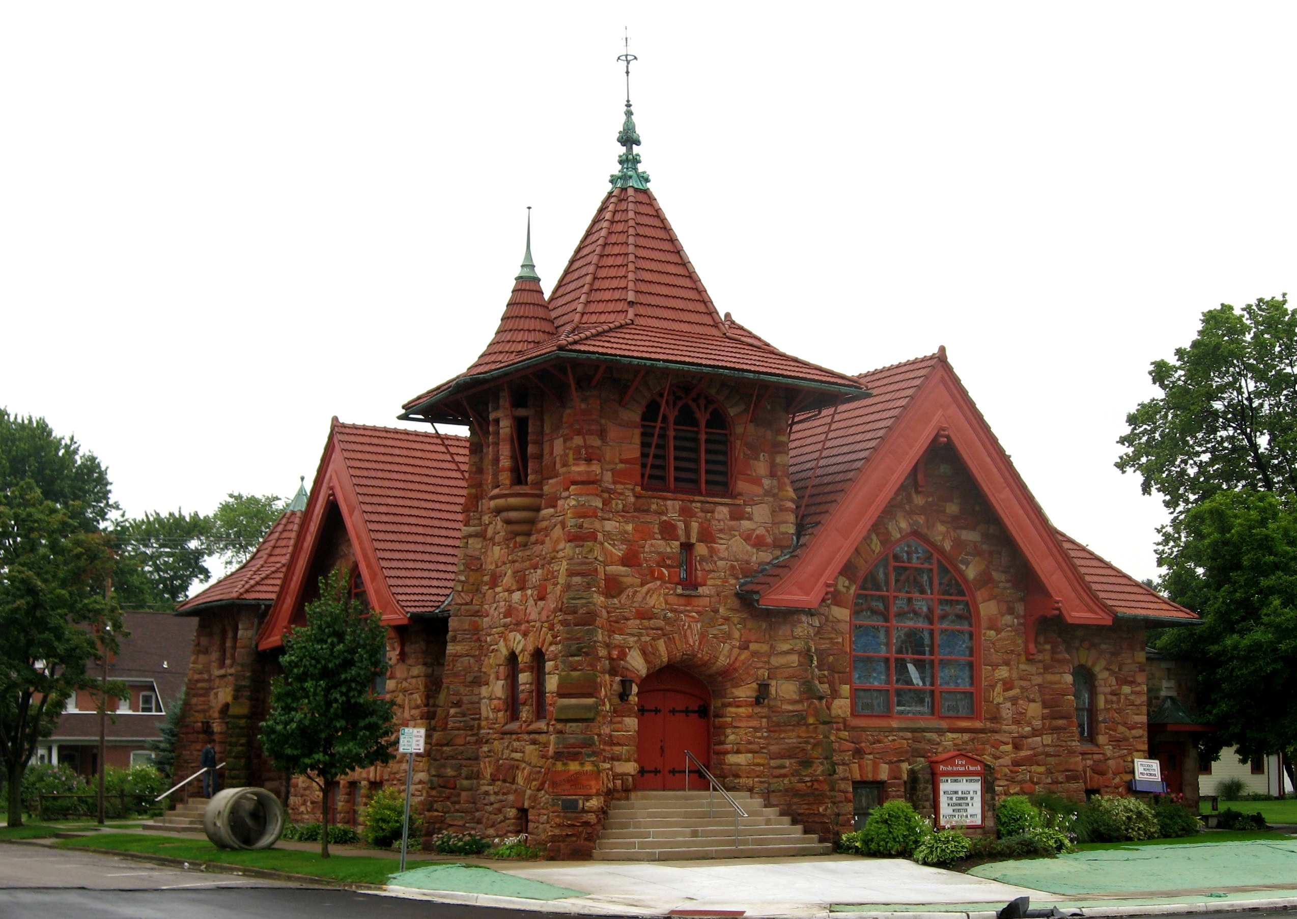 Exterior of the First Presbyterian Church of Napoleon, Ohio, United States. Built at 303 W. Washington Street in 1901, the church is listed on the National Register of Historic Places.